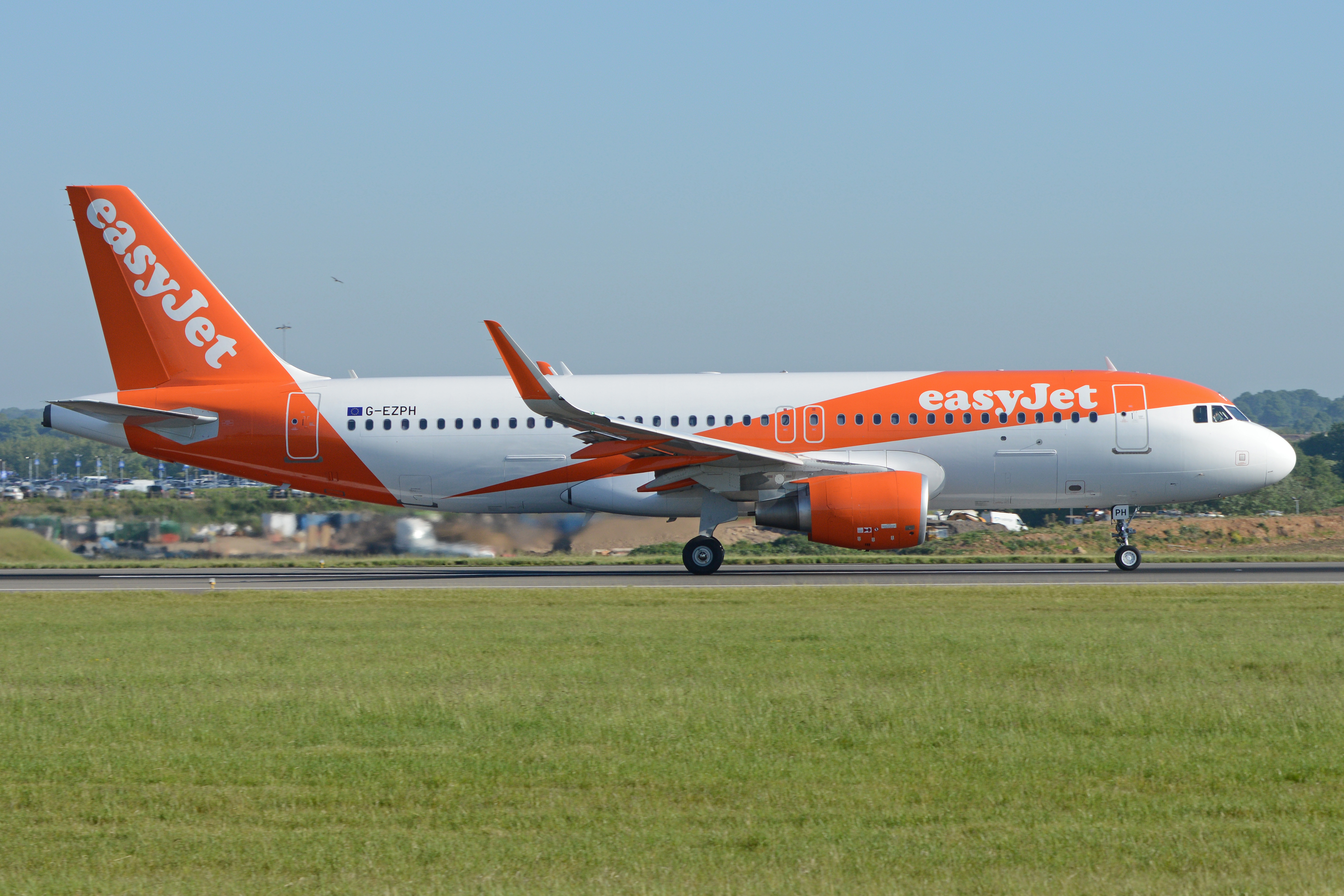 c/n 7093. Built 2016. Seen departing on flight U22051 / EZY29FC to Geneva. London Luton Airport, UK. 26th May 2017